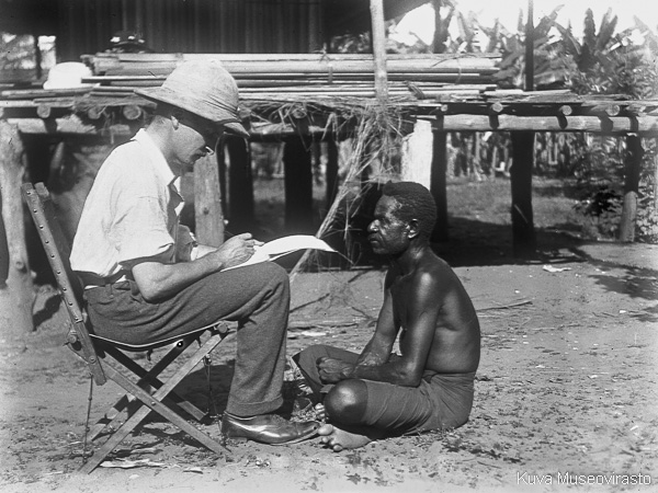 Photograph of the Finnish anthropologist Gunnar Landtman (1878–1940) with an informant in Papua-New-Guinea.